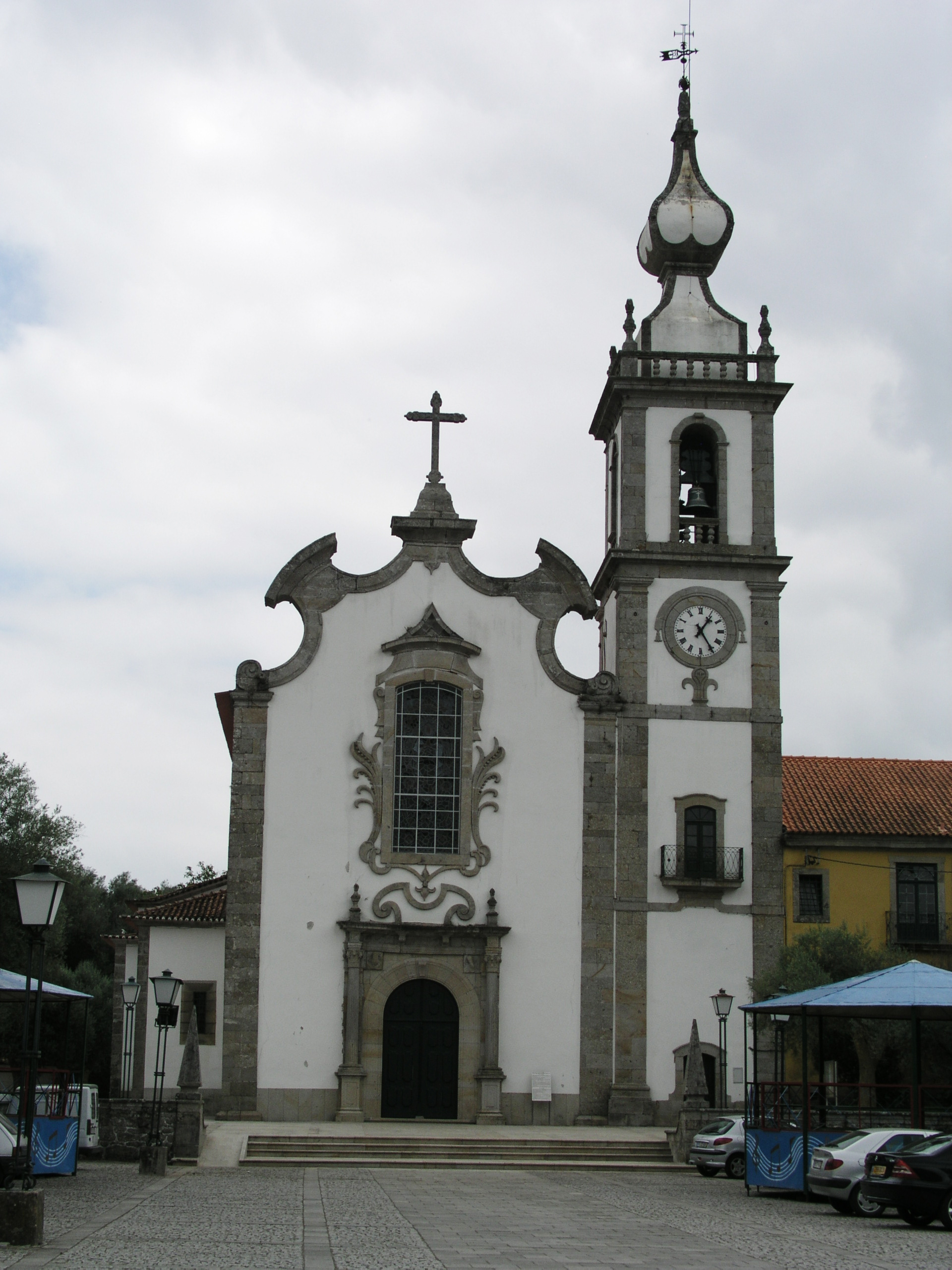 Refóios do Lima, Ponte de Lima, Portugal. Church.